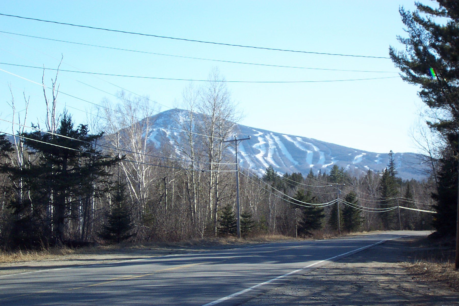 Maine State Routes 16 and 27 with Sugarloaf Mountain in the background